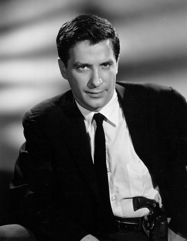 Photo of John Cassavetes as Johnny Staccato from the television program of the same name.